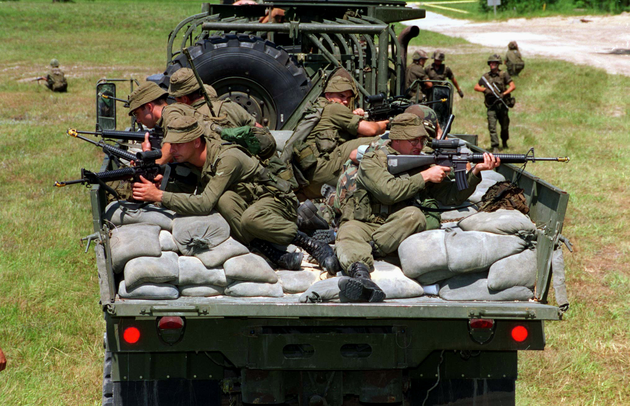 Canadian soldiers practice convoy operations during a Situational Training Exercise at Camp Lejeune, N.C., on Aug. 21, 1996, as part of Cooperative Osprey '96. Sand bags are laid in the bed of the truck to protect the soldiers from mine blasts. Cooperative Osprey '96 is a NATO sponsored exercise as part of the alliance's Partnership for Peace program. The aim of the exercise is to develop interoperability among the participating forces through practice in combined peacekeeping and humanitarian operations. Three NATO countries and 16 Partnership for Peace nations are taking part in the field training exercise.